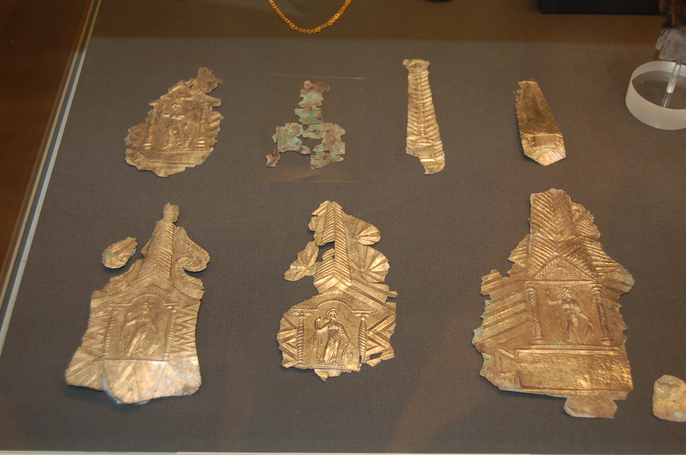 This is a hoard of 26 gold and silver Roman objects including gold jewellery nineteen votive ?leaf? plaques and two silver model arms. Photo by Dominic Coyne, Young Graduates for Museums and Galleries programme August 2007.